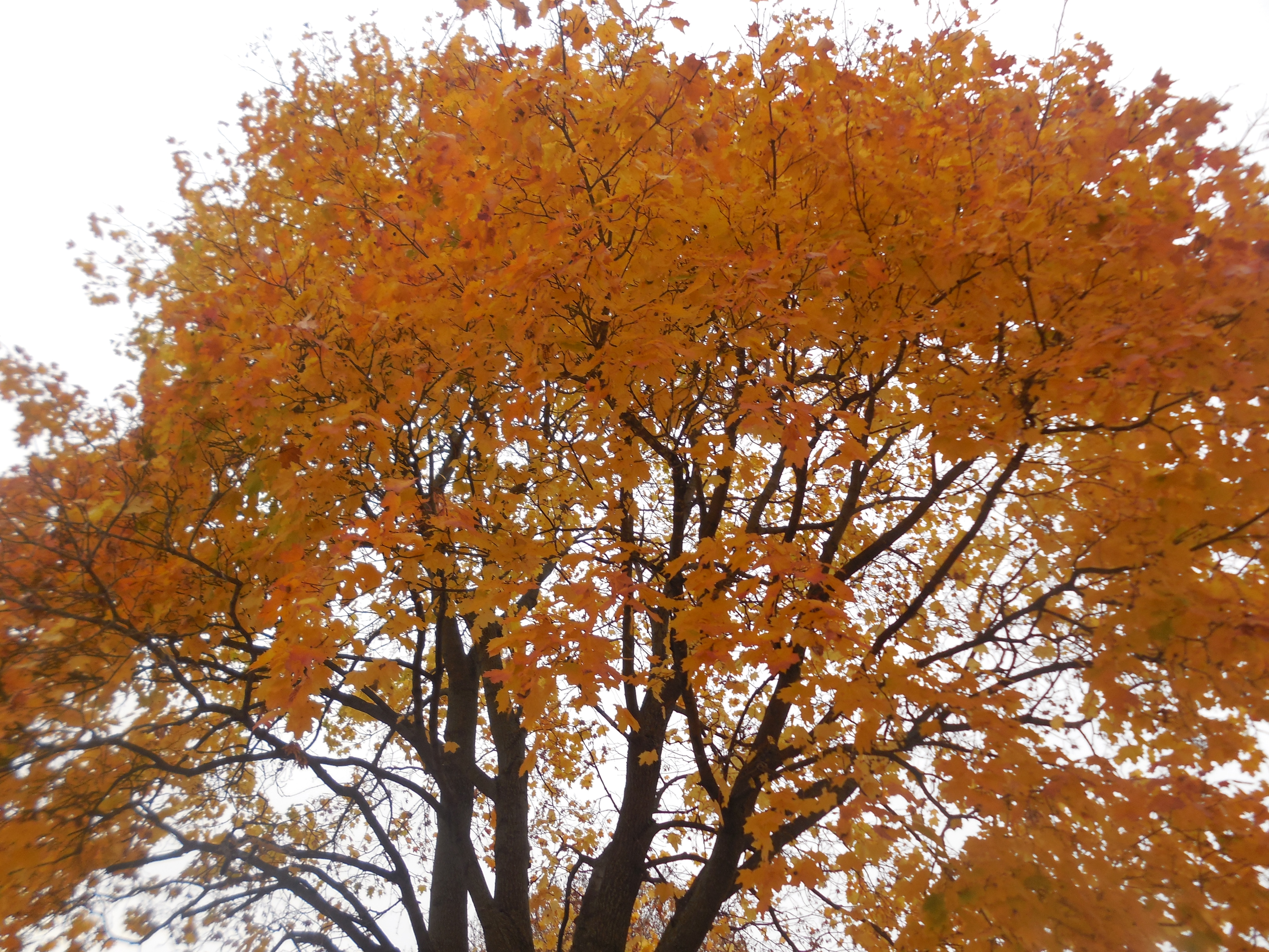 A fall tree